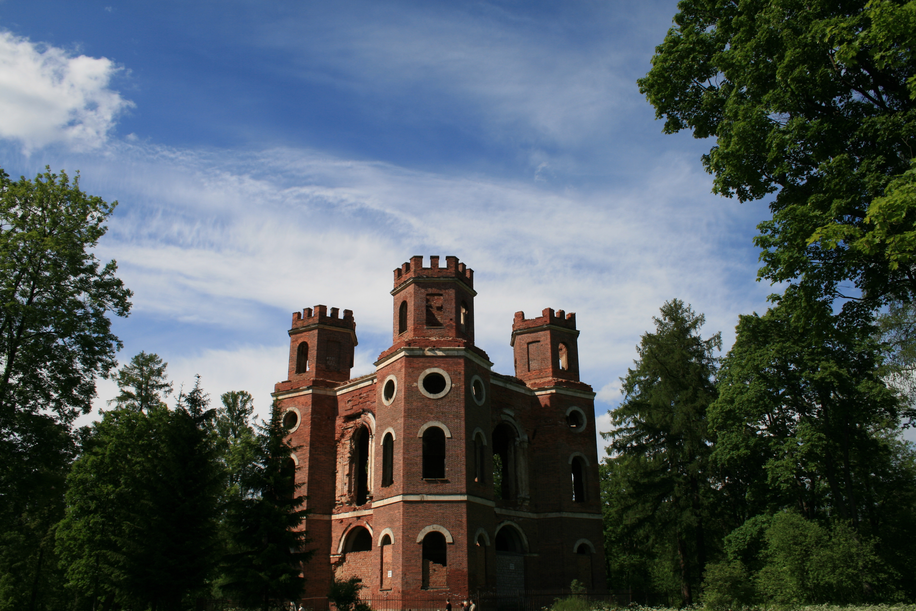 Alexander Park in Tsarskoe Selo, «Arsenal» pavilion